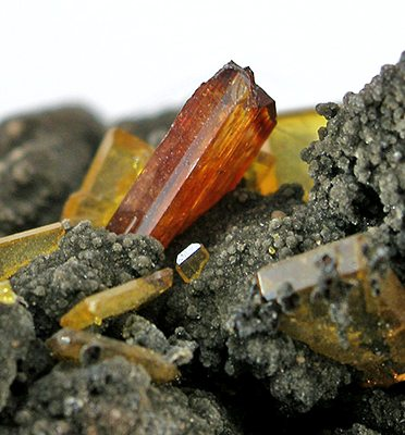 Raspite, Stolzite Locality: Broken Hill, Yancowinna County, New South Wales, Australia (Locality at ) Size: cabinet, Raspite and Stolzite This rich specimen has an upper display face featuring about half a dozen SHARP AND GEMMY raspite crystals, to 6 mm, mixed with equally sharp and gemmy stolzite crystals to a really large 7mm size. There is some damage, some broken crystals, but also many intact and freestanding as you seldom see (at least half a dozen good crystals of each species and several of those being superior quality as well!). It is overall one of the richer specimens of this classic combination I have seen, from the early 1900's. I have not had a specimen of either species here in ages, and to get the classic combo, on the same specimen, is a very treasured find! For the piece to be somewhat displayable as a pretty object, more so.